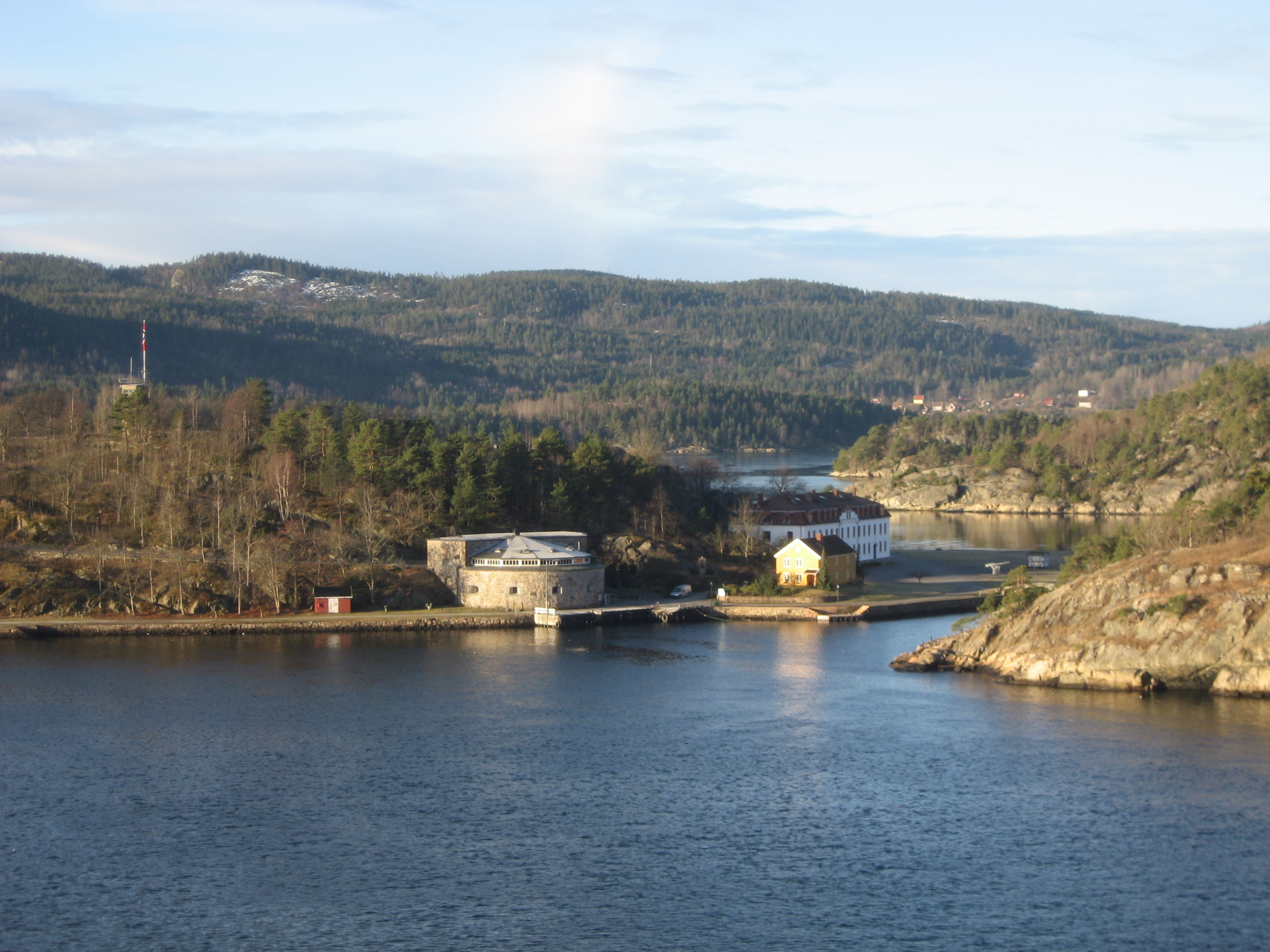 Oscarsborg Fortress, Harbour fort in the midle. «Kongen» - the flagg pole of Oscarsborg up to the left and the shadow near the water at bottom right is the exit tunnels from the torpedo battery.